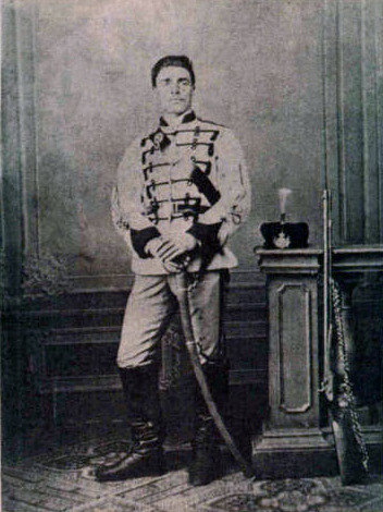 Vasil Levski (1837–73) in a Bulgarian Legion uniform